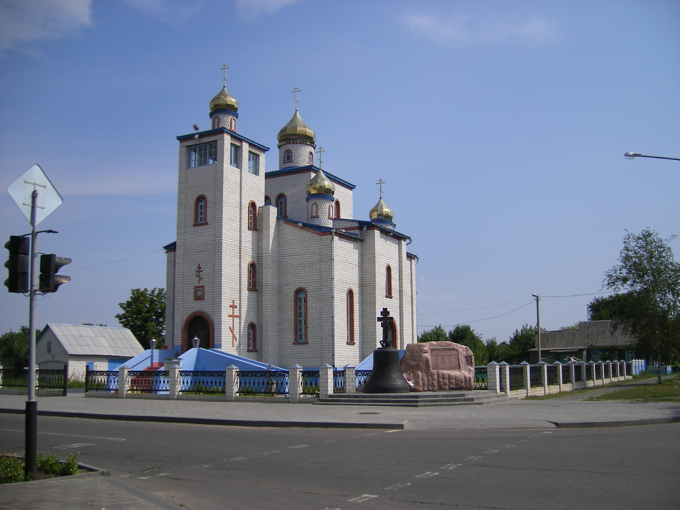 Vetka (Homel Oblast), Spaso-Preobrazhenskaya church